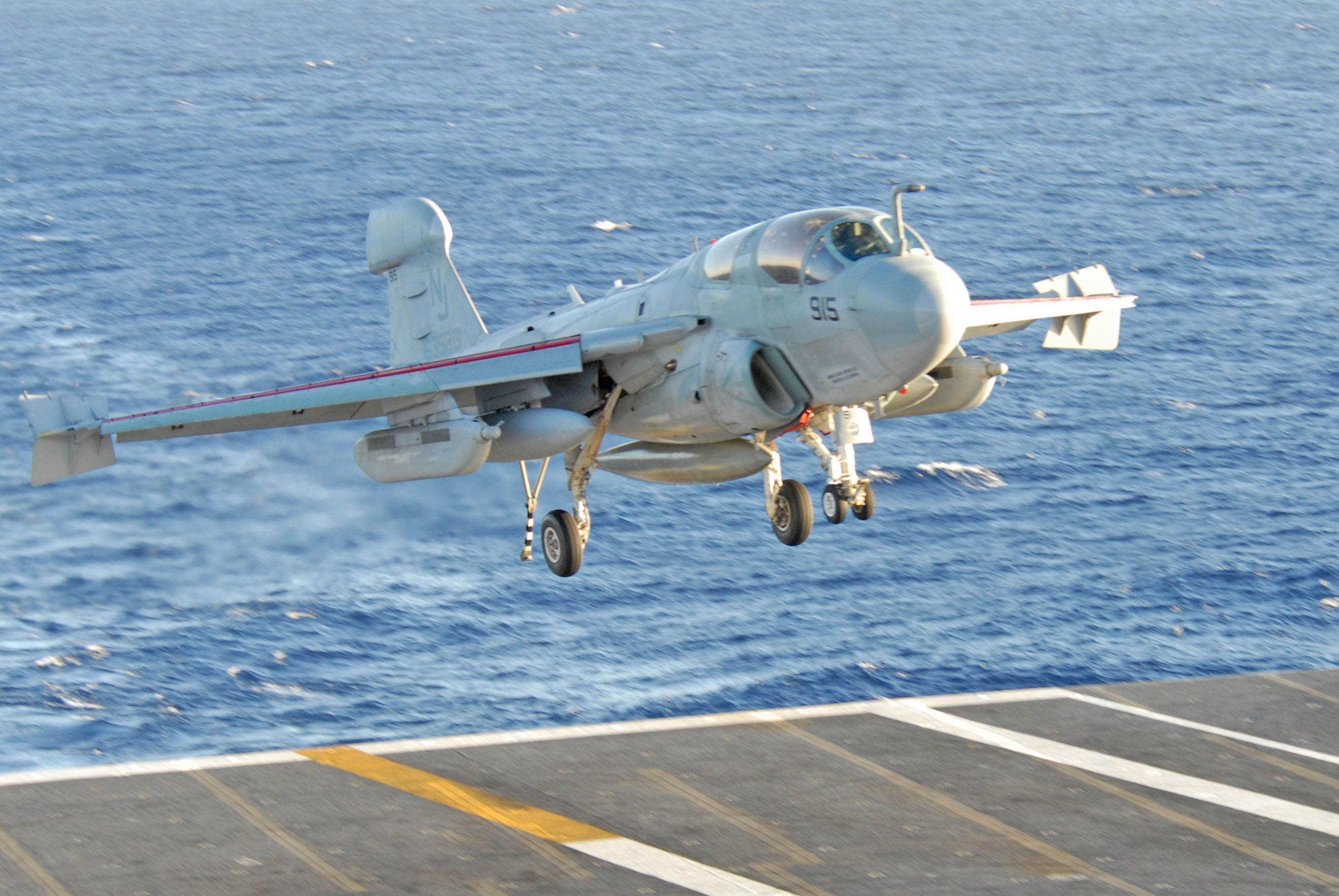 081002-N-9610C-030 PACIFIC OCEAN (Oct. 2, 2008) An EA-6B Prowler assigned to the "Eagles" of Electronic Attack Squadron (VAQ) 129 prepares to land aboard the Nimitz-class aircraft carrier USS John C. Stennis (CVN 74). Stennis is conducting fleet replacement squadron carrier qualifications off the coast of California. (U.S. Navy photo by Mass Communication Specialist 3rd Class Matthew Ebarb/Released)